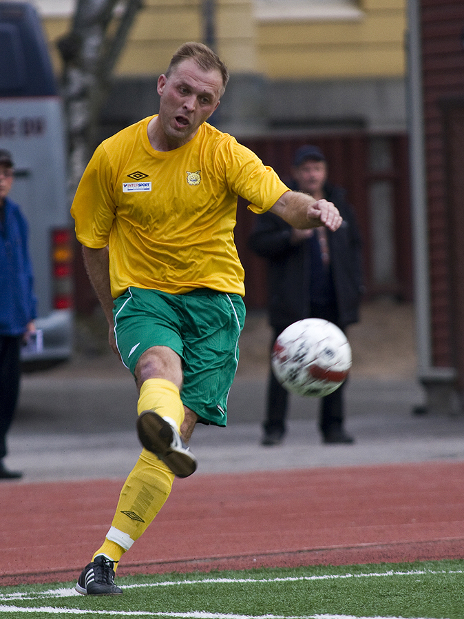 Football player/coach Valeri Popovitš of Ilves Tampere in the 2010 Suomen Cup